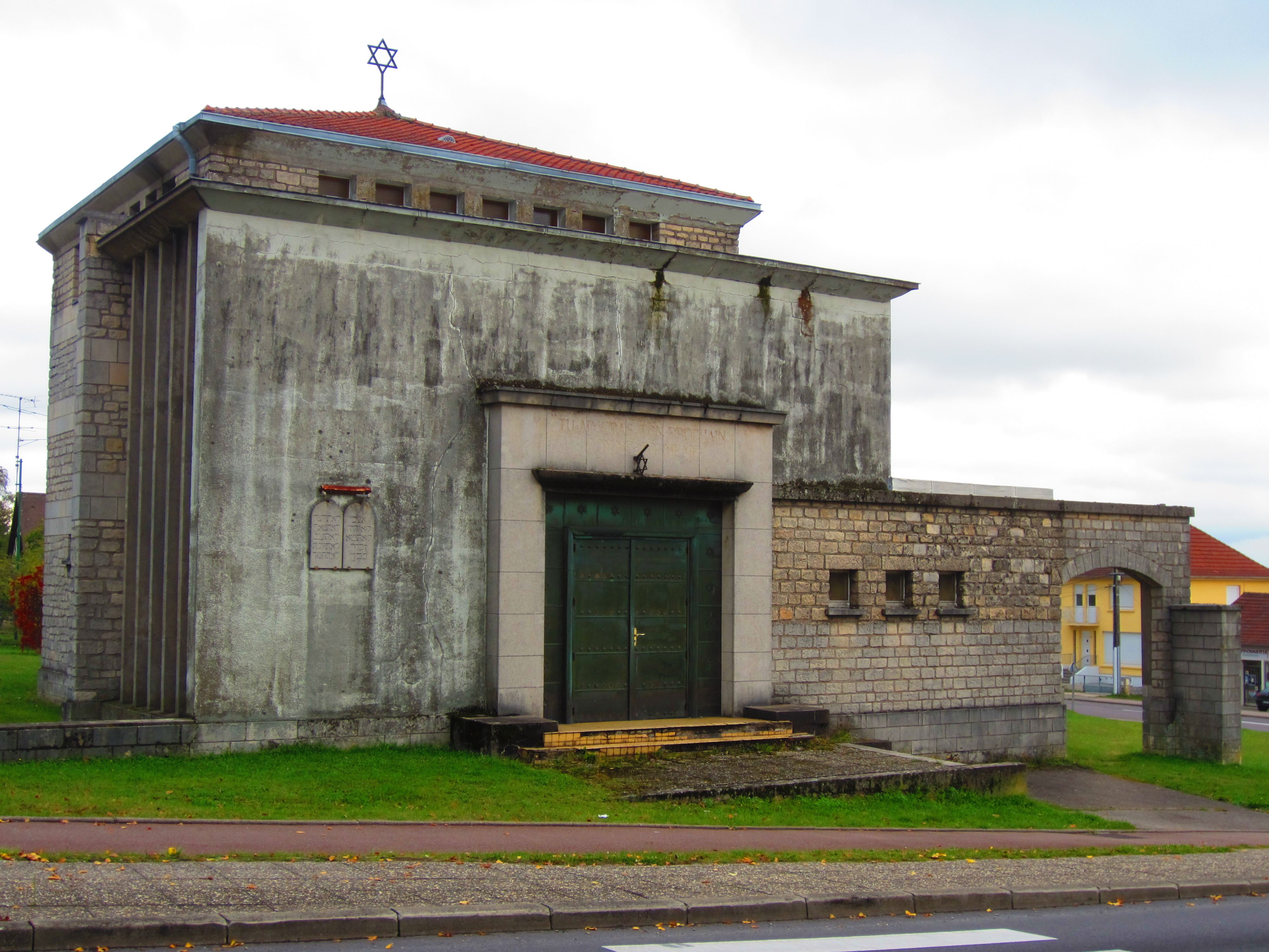 Synagogue Faulquemont